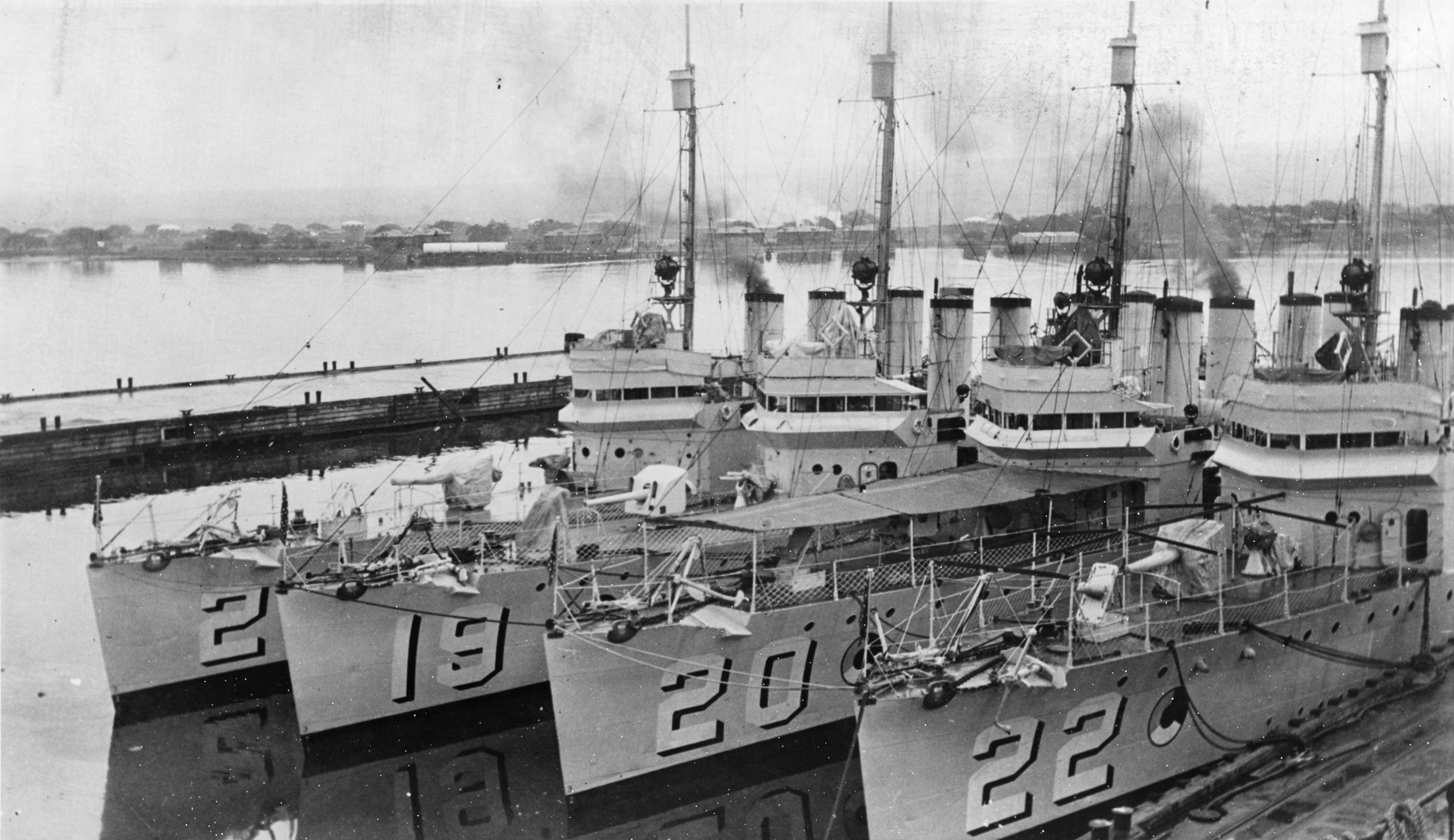 The U.S. Navy destroyer minelayers USS Sicard (DM-21), USS Tracy (DM-19), USS Preble (DM-20) and USS Pruitt (DM-22) at anchor in the Hawaiian Islands, 30 July 1939.